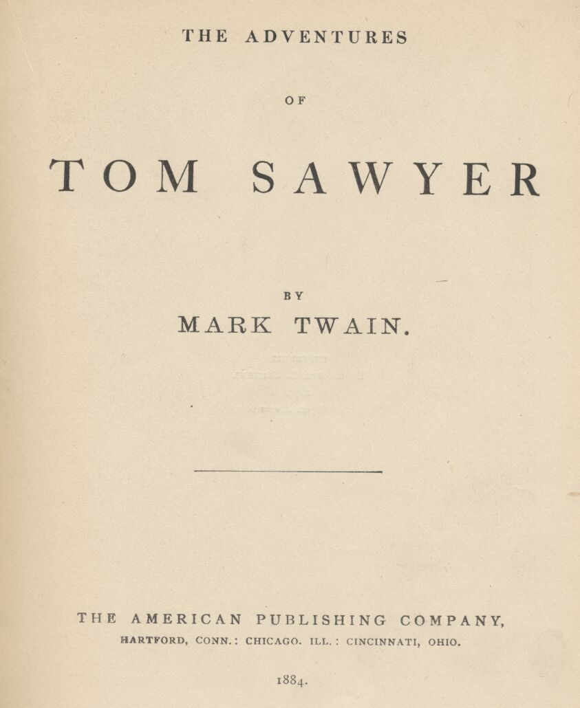 Illustrations de The Adventures of Tom Sawyer, 1876.